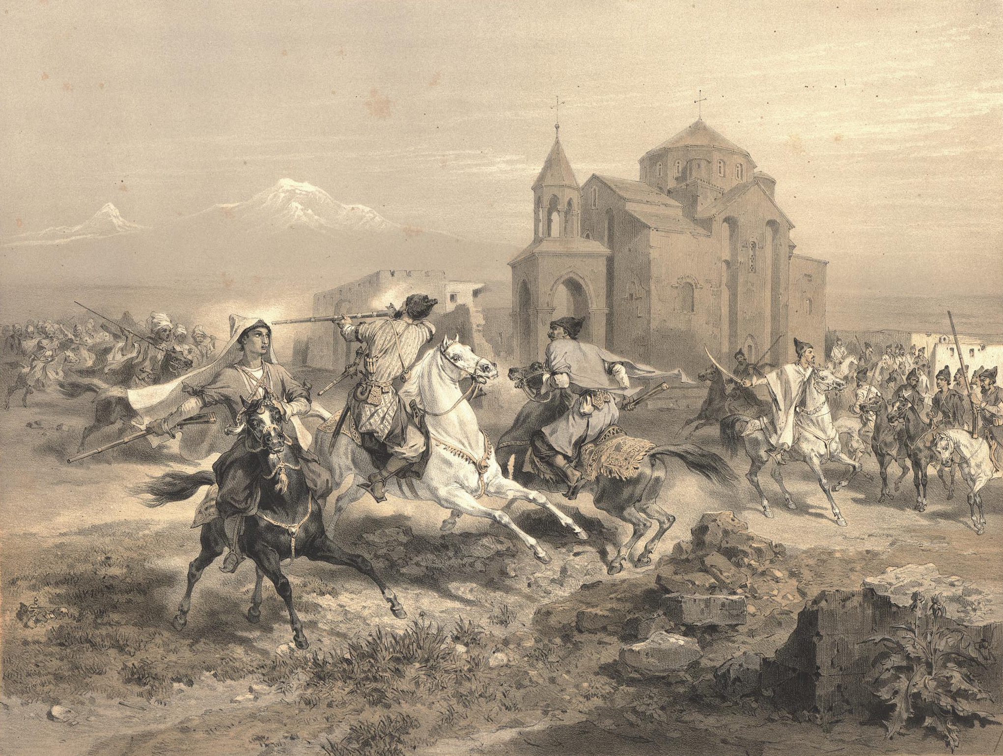 Kurds and Persians attacking Vagharshapat, by Prince Grigory Gagarin, Paris, 1847